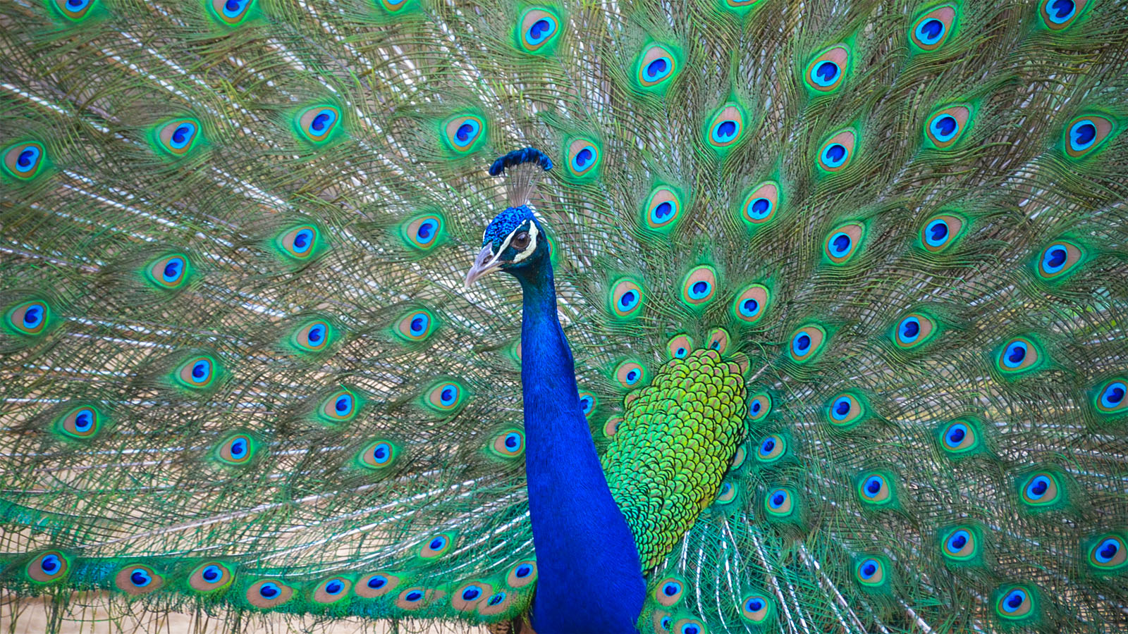 Indian Peafowl. This image is one in the series of photographs I'm uploading under the tag name "Birds of IIT Delhi".